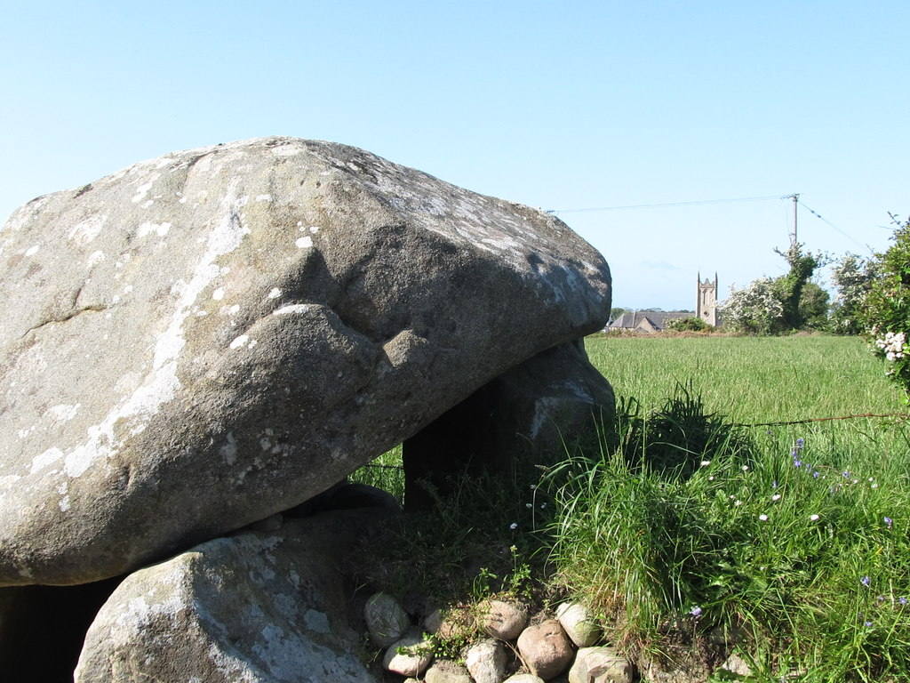 Christchurch, Kilkeel viewed from the chambered tomb